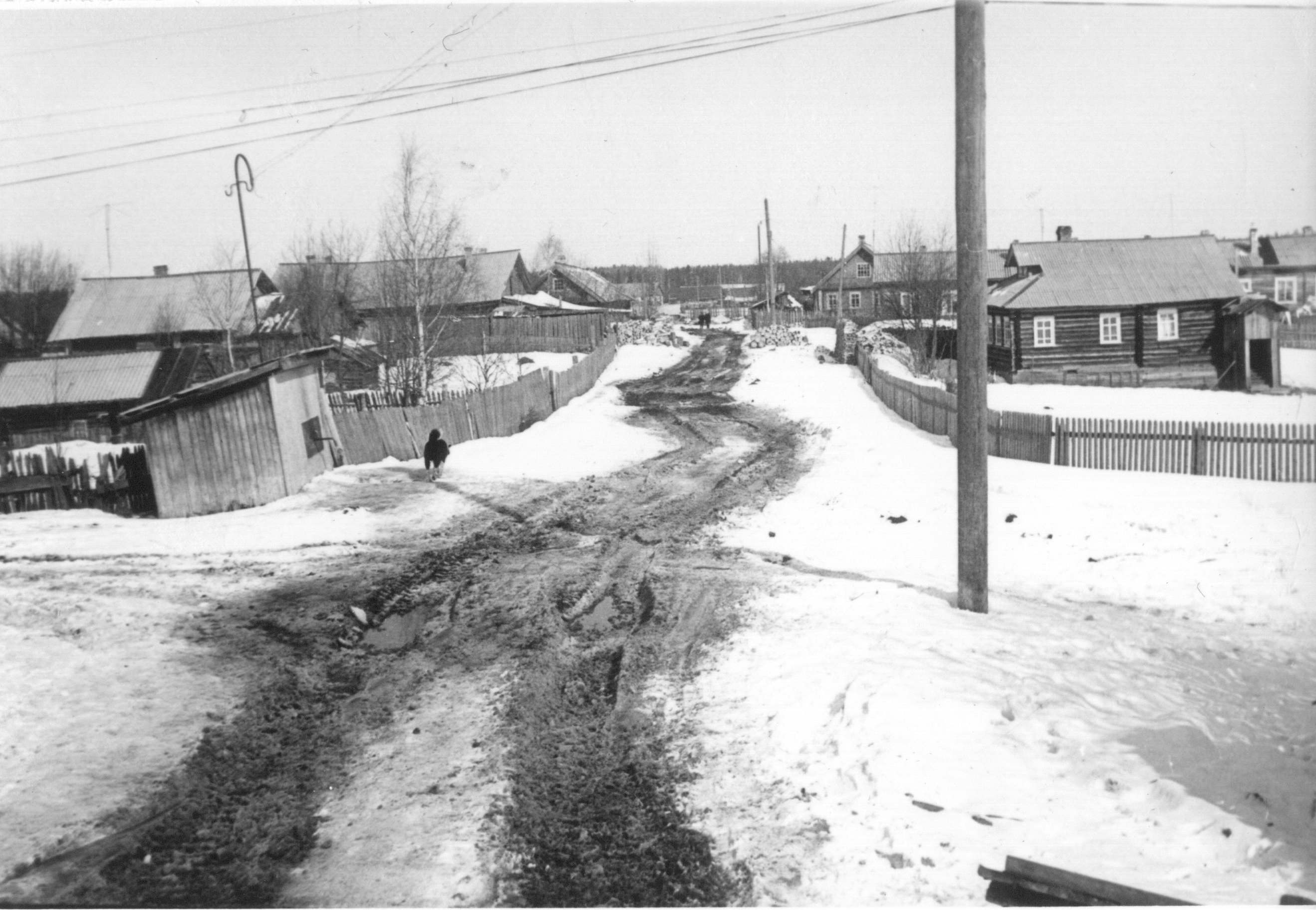 Village Zhosma